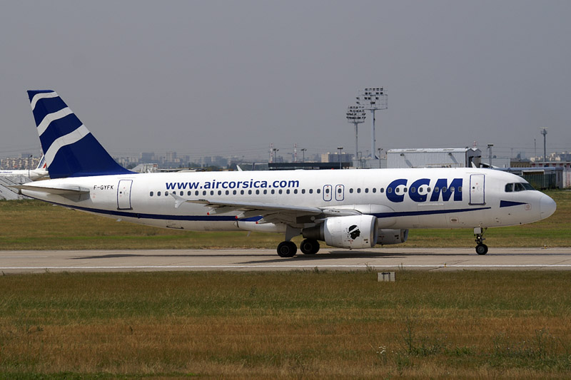 CCM Airlines Airbus A320 F-GYFK